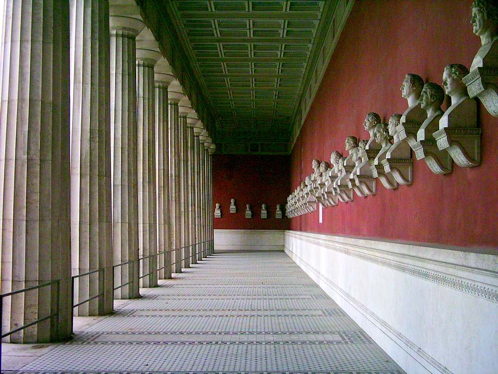 Busts of famous "bavarian" people at Ruhmeshalle ("Hall of fame"), München, Germany. Picture taken by myself: Dominik Hundhammer, München, 27 March 2006.